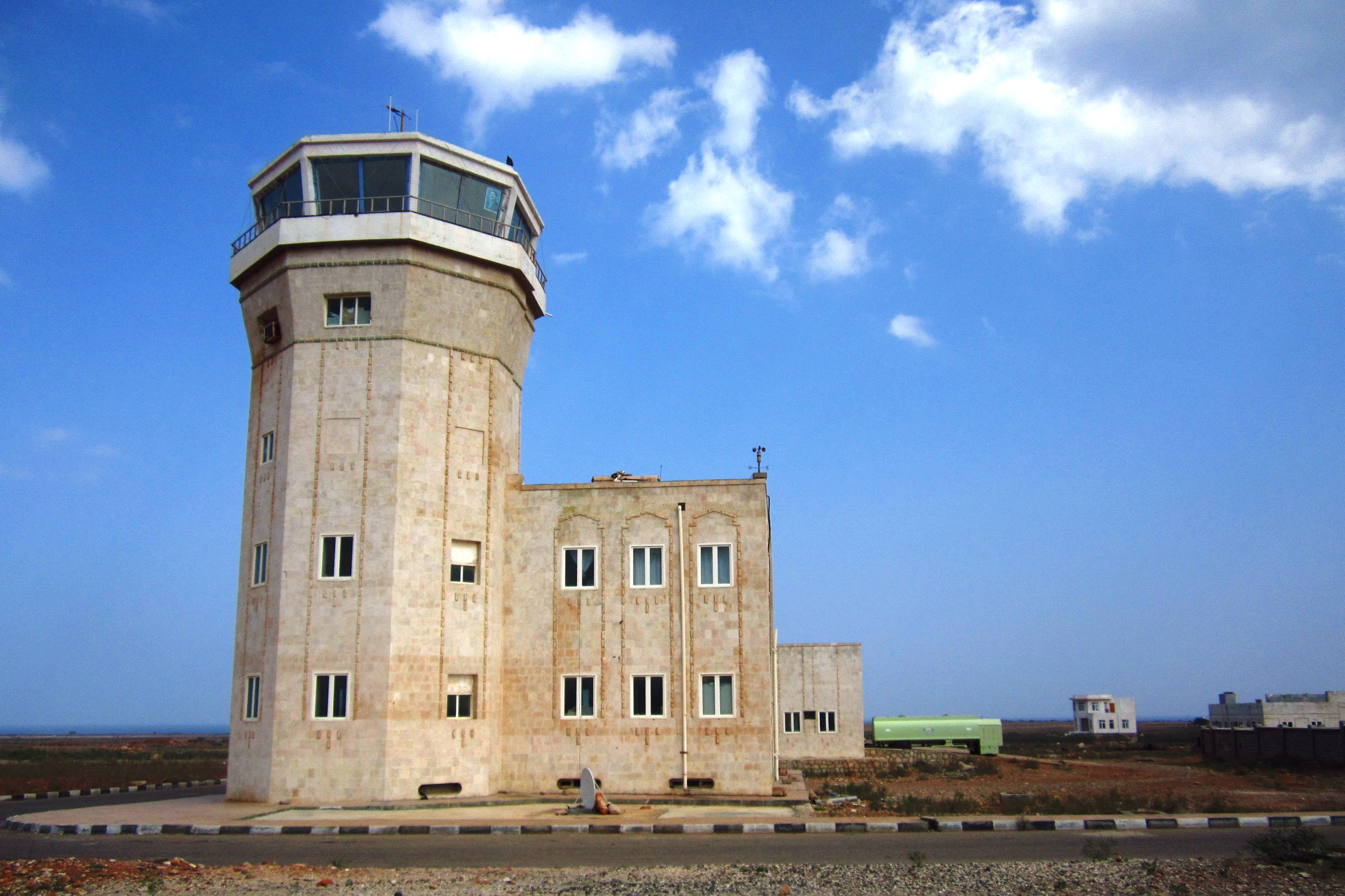 tower island airport yemen socotra soqotra